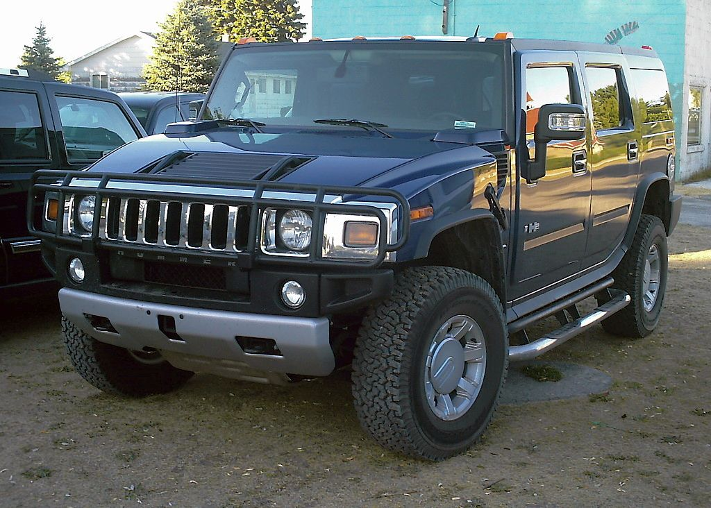 2008 Hummer H2, photographed in Cross Village, MI.